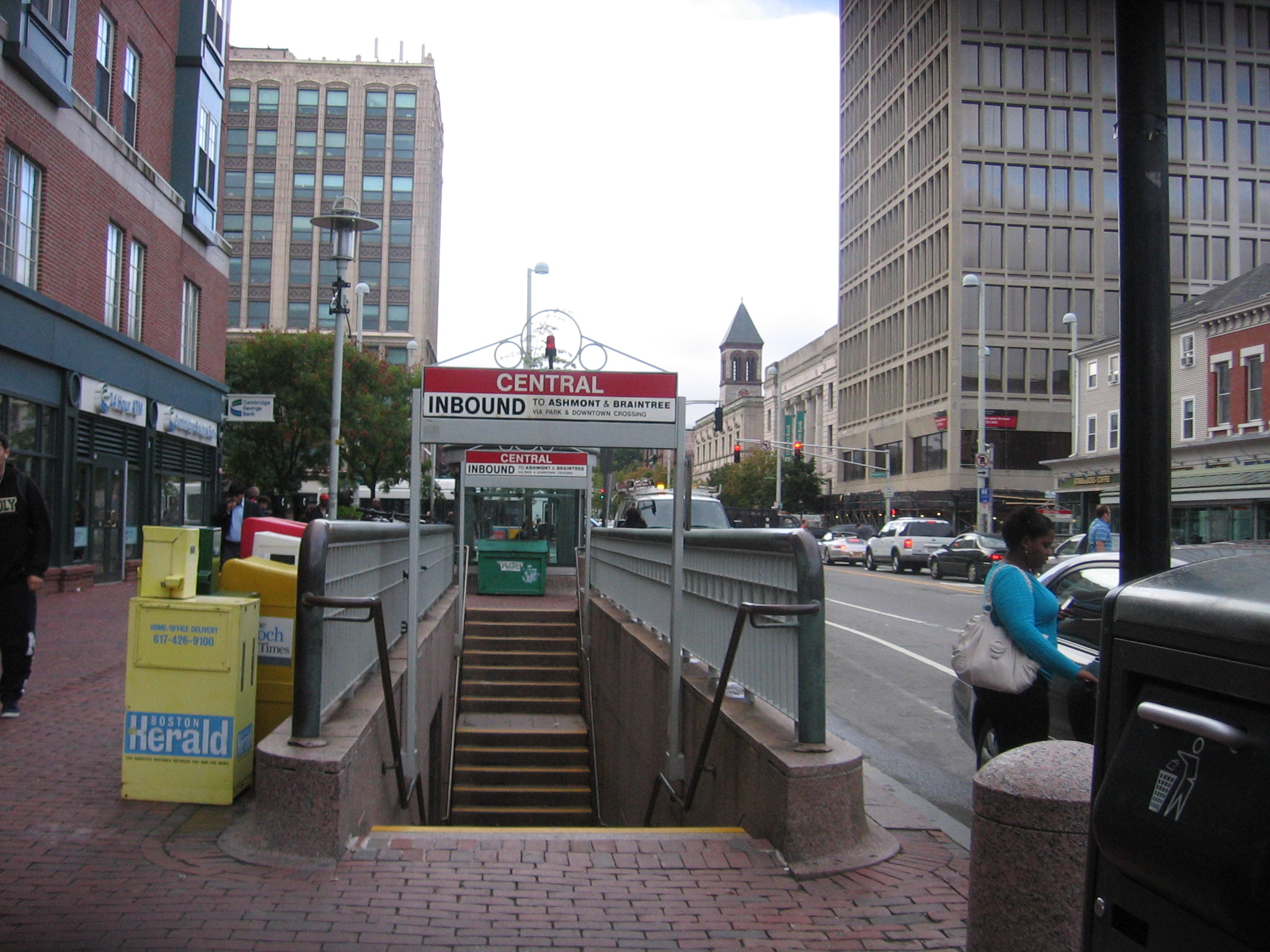 Main inbound entrance to Central on the MBTA Red Line. This is on the south side of Mass Ave, just east of River Street.